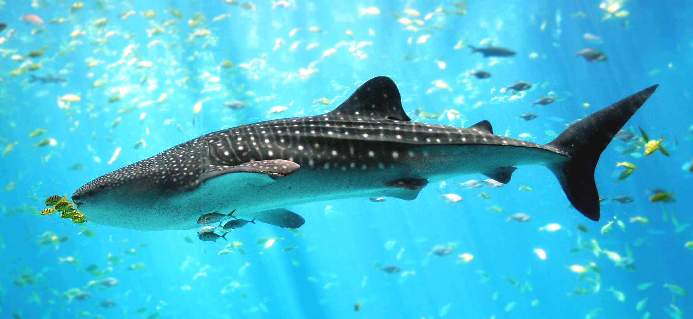 "cropped and adjusted version of IMG 1023.JPG in commons"